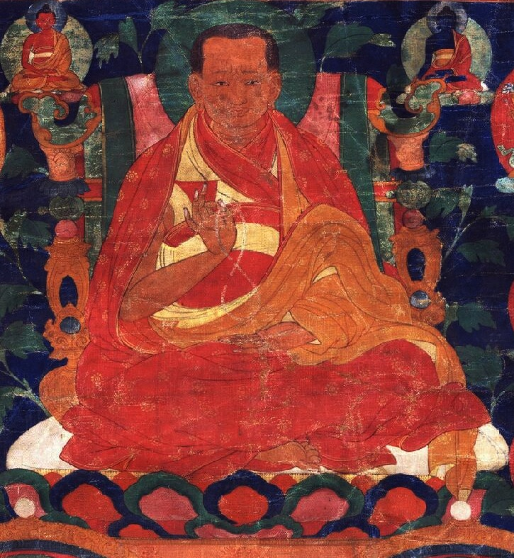 zhangton chobar (b.1053 - d.1135) lamdre lineage